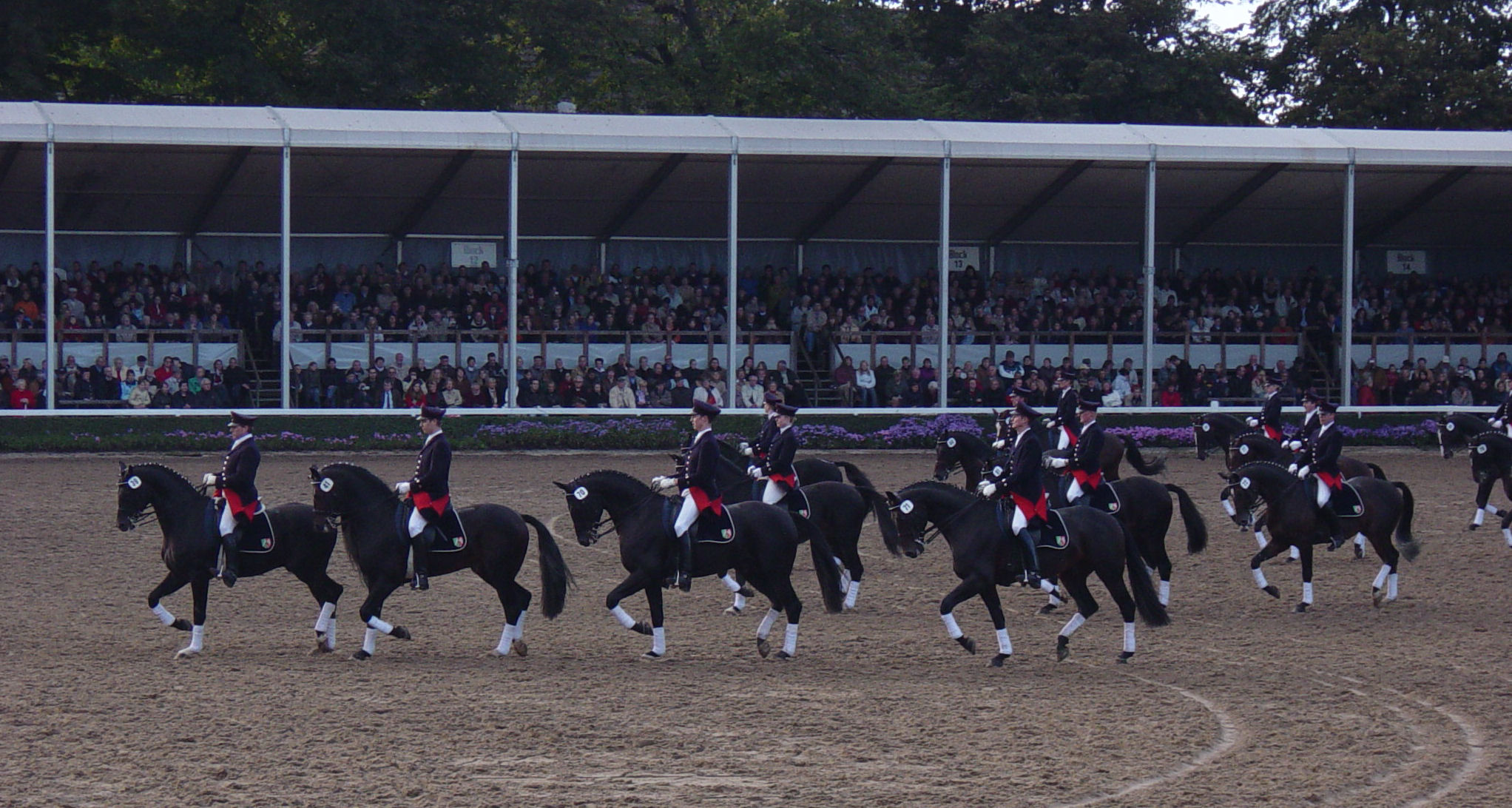 Hengstparade in Warendorf, Germany